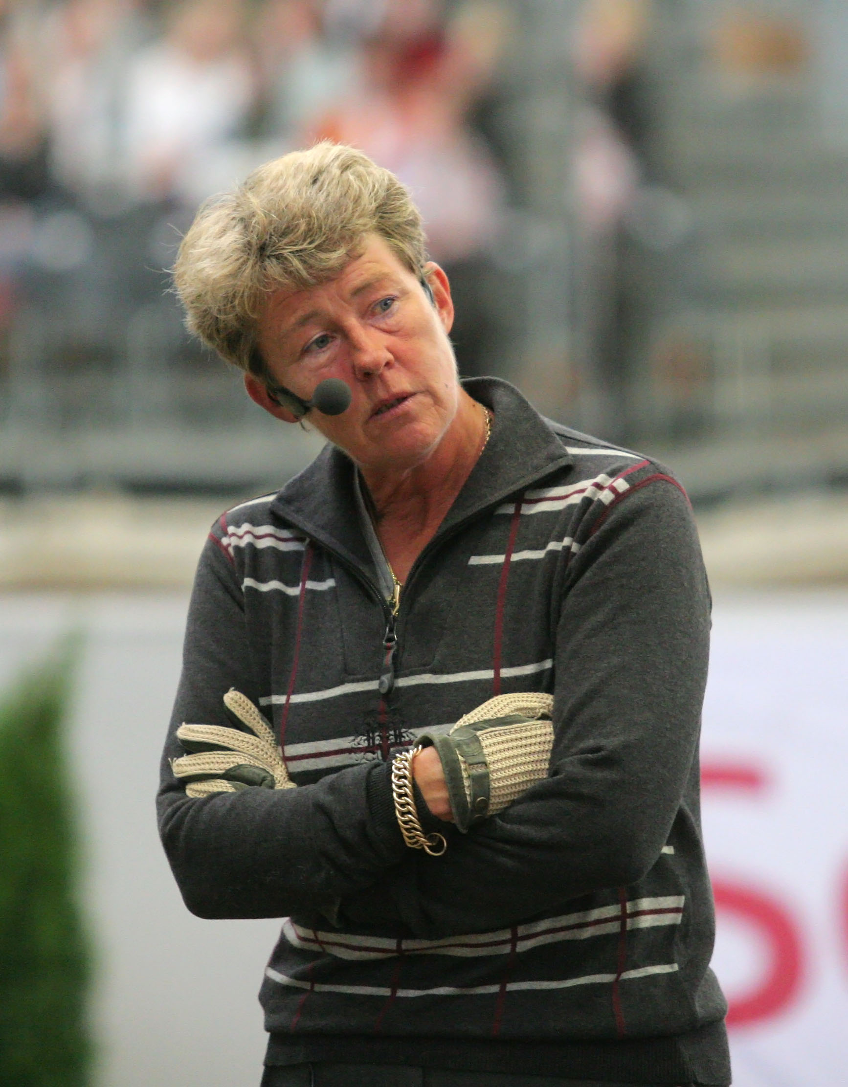 Kyra Kyrklund keeping clinque in Finland